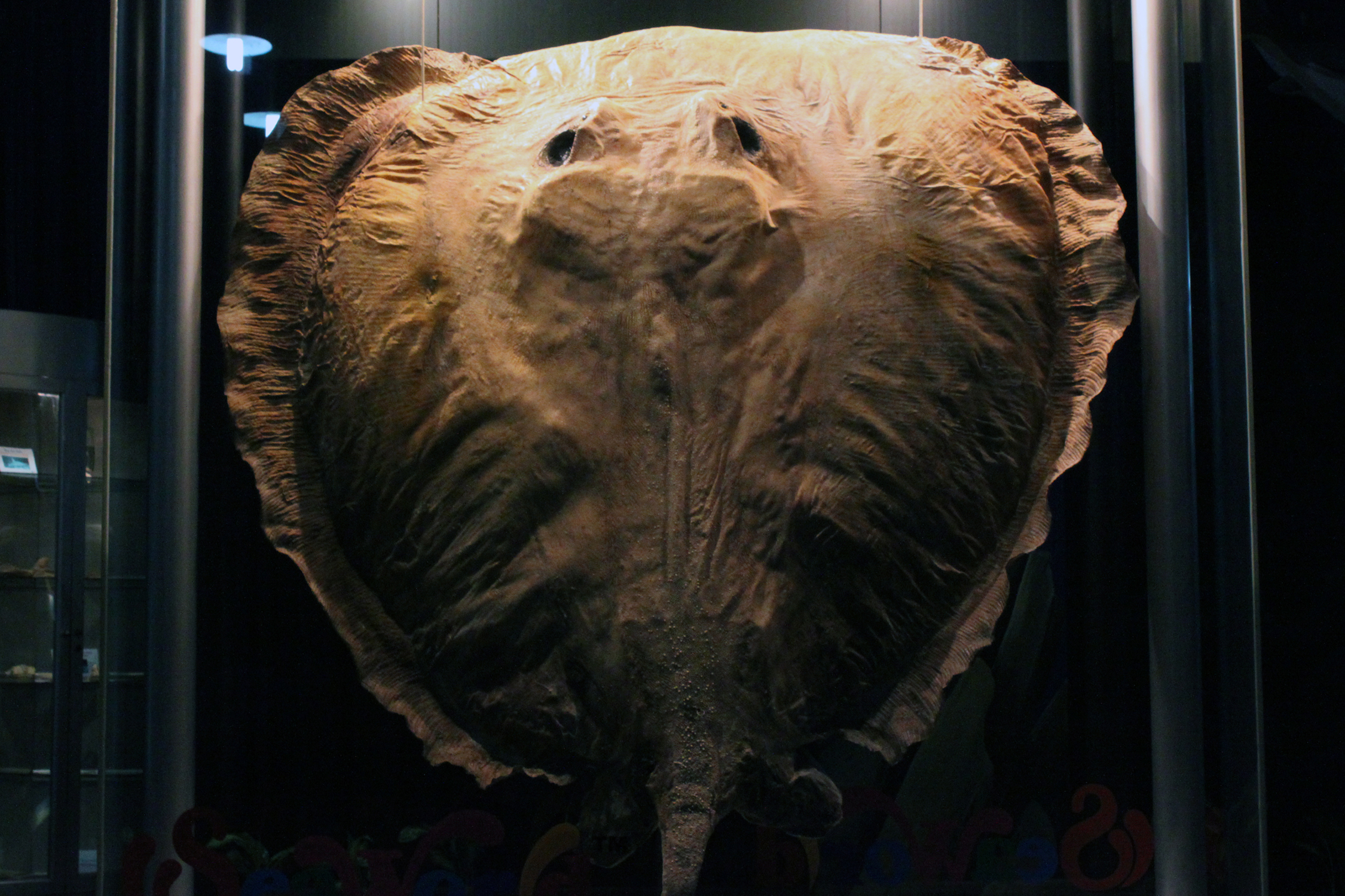 Preserved specimen of a Giant freshwater stingray (Himantura polylepis) at Sea World, Taman Impian Jaya Ancol, Jakarta, Indonesia.